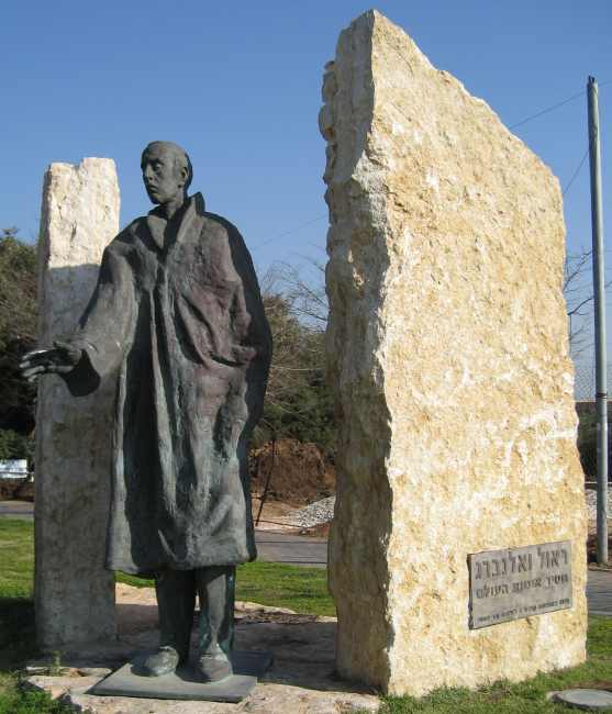 Statue of Raoul Wallenberg, Wallenberg st., Tel-Aviv, Israel Date: February 28, 2007